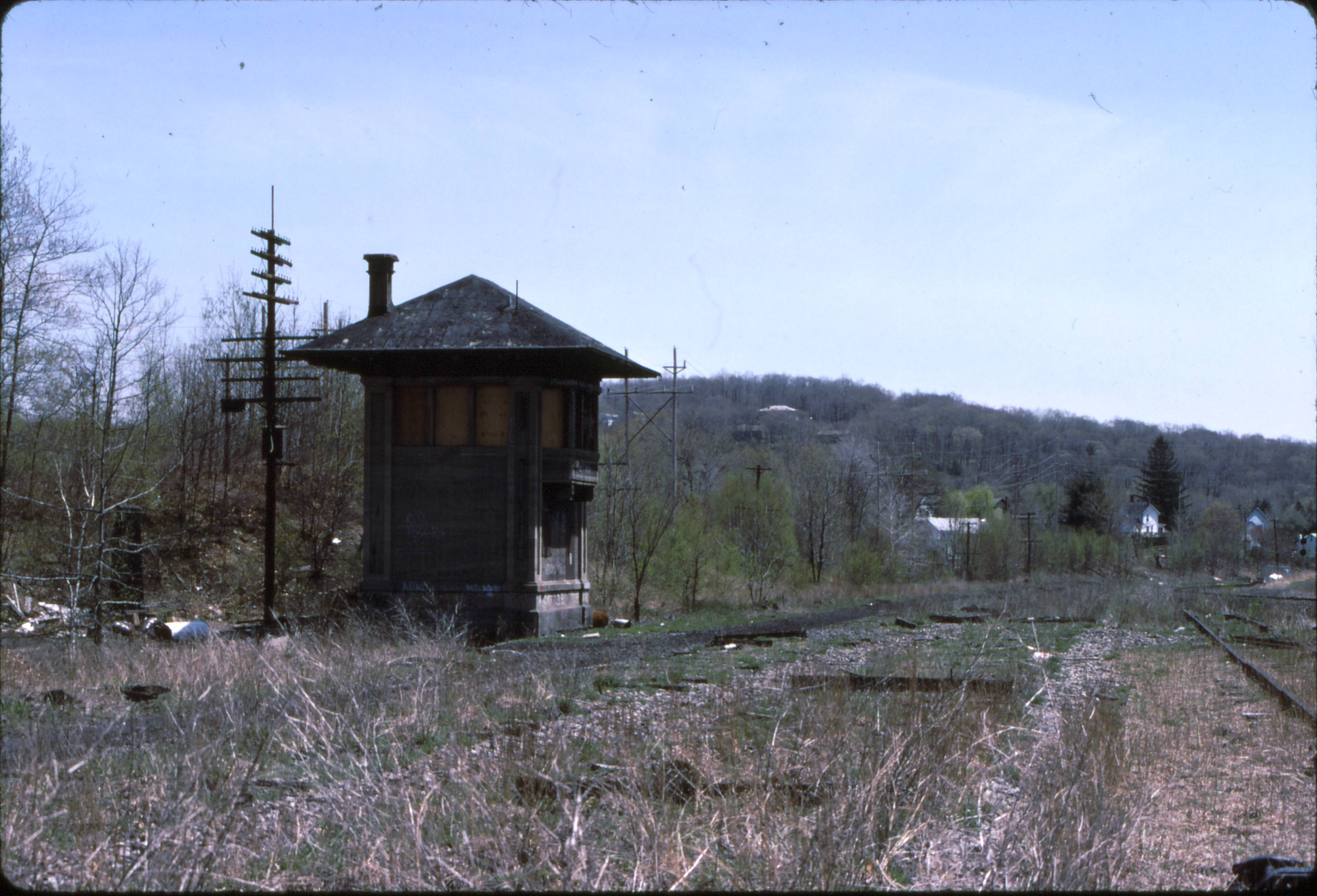 Port Morris Tower in Roxbury Township, New Jersey. Built by the Delaware, Lackawanna and Western Railroad.